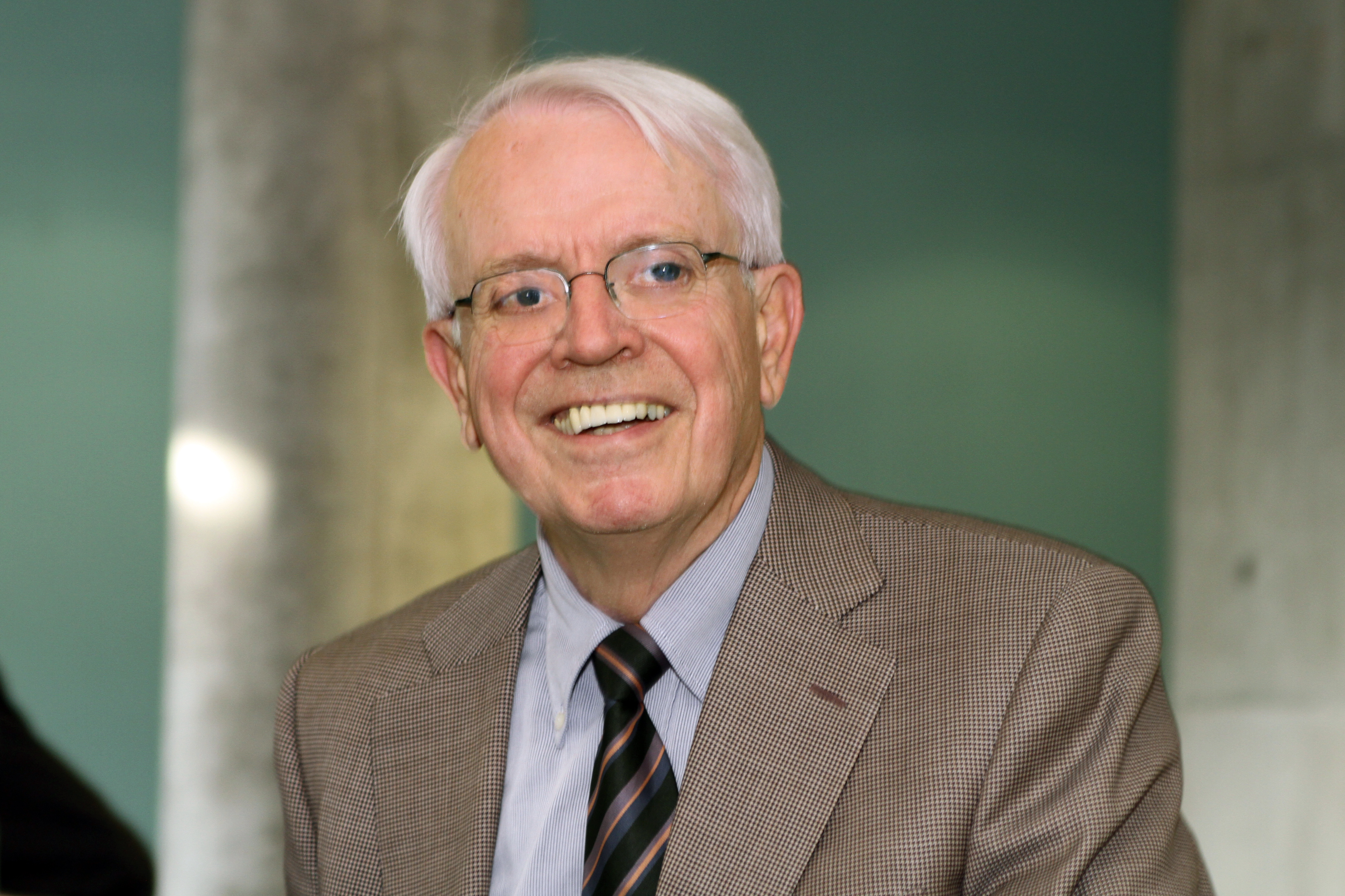 Professor Joachim Seelig